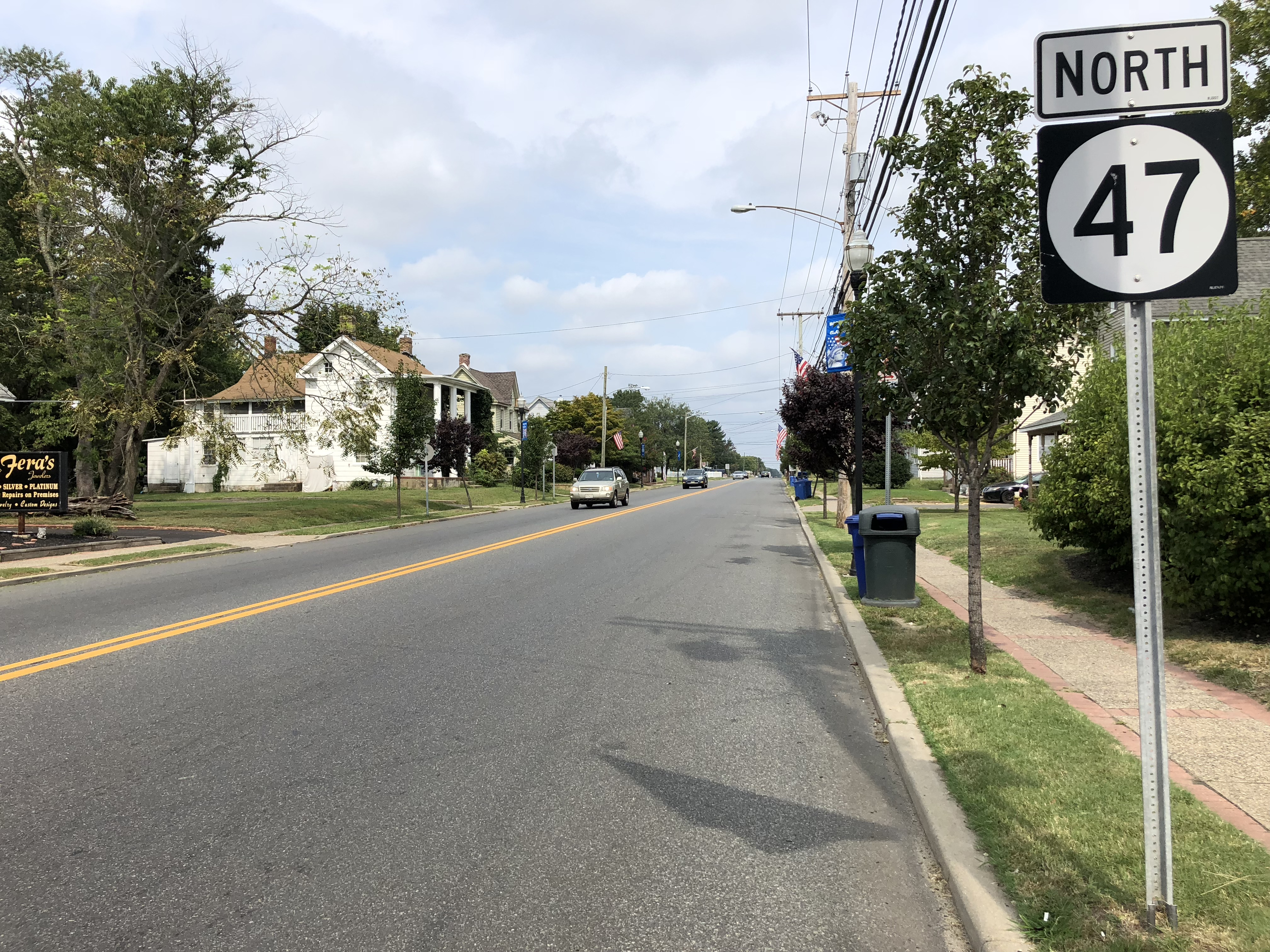 View north along New Jersey State Route 47 (Delsea Drive) just north of Gloucester County Route 610 (Academy Street) in Clayton, Gloucester County, New Jersey